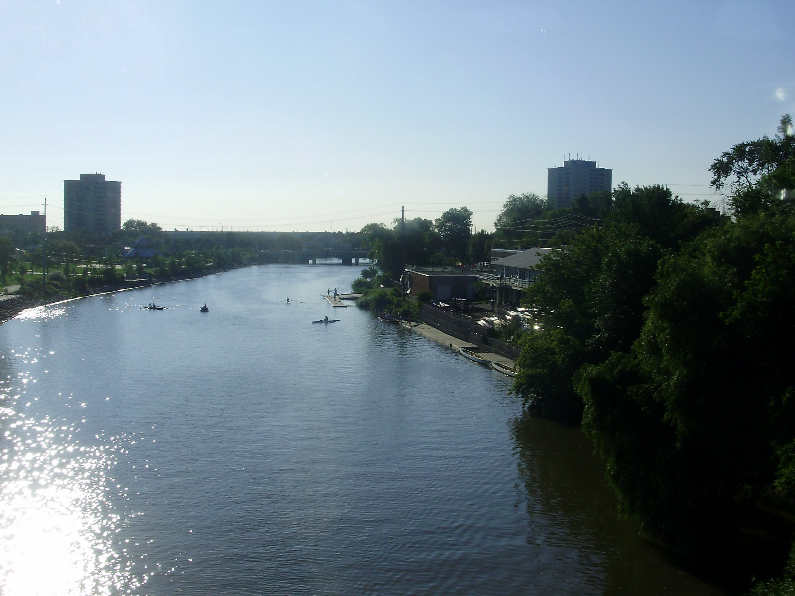 The Credit River flowing through the community of Port Credit in Mississauga, Ontario, Canada toward Lake Ontario. Photographed from the southern side of a GO Transit Bombardier BiLevel car on the Lakeshore West line, travelling westbound to Burlington.